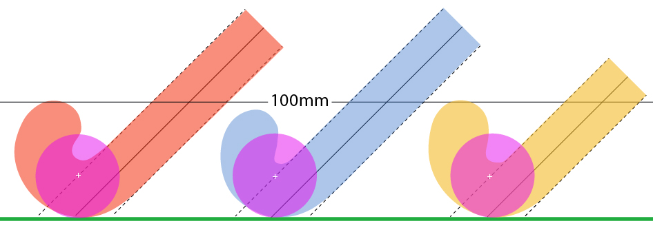 Varied size of ball. Assumed position of ball in striking position in relation to the stickhead.